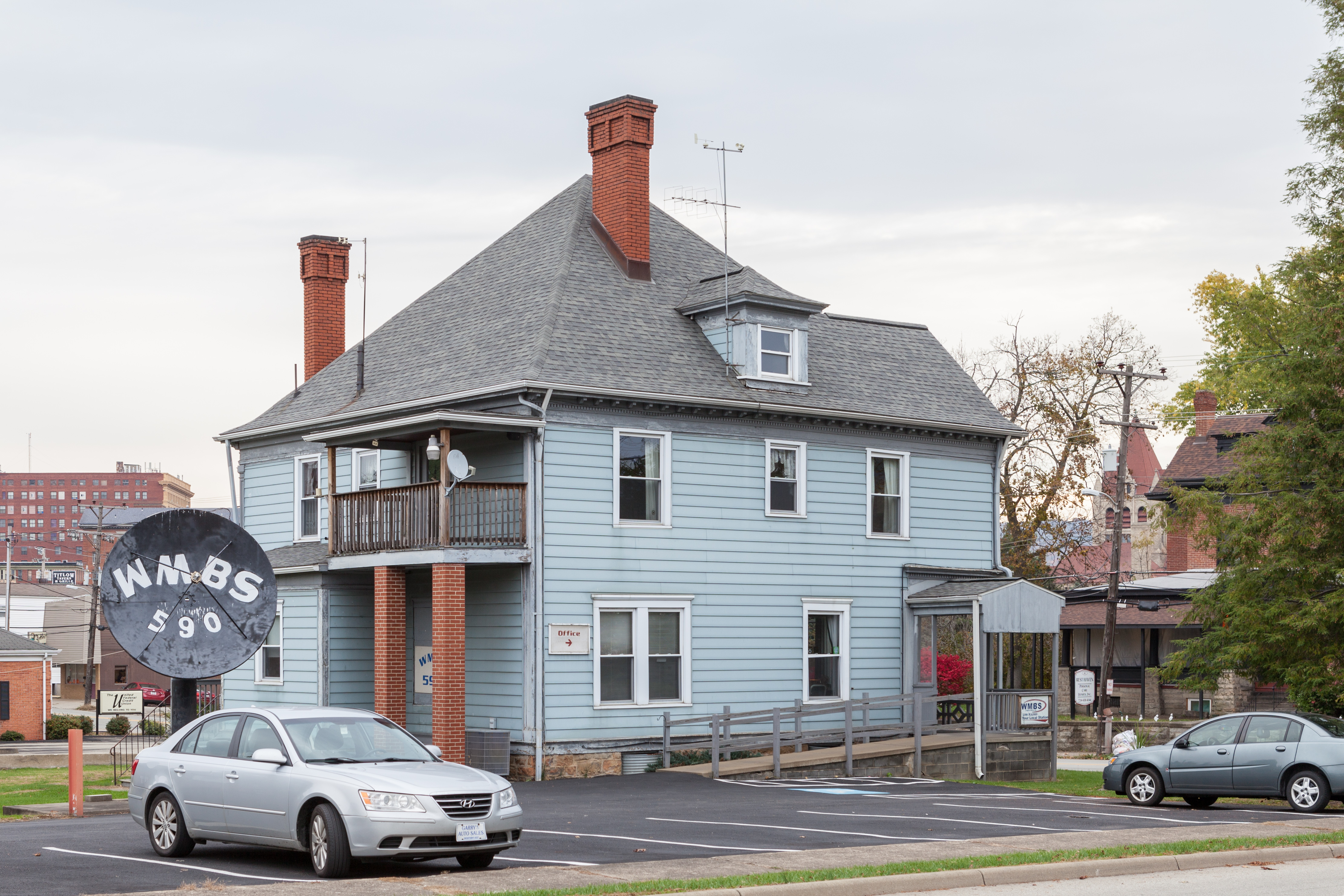 WMBS studio at 44 South Mount Vernon Avenue, Uniontown, Pennsylvania. Seen from the west.